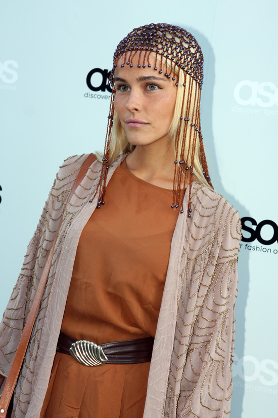 Isabel Lucas, Media Mates, Asos Fashion Cocktail Party, by Eva Rinaldi what cocktail party hosted by isabel lucas If you're looking to try to make a splash into the online fashion world, you might as well play the celebrity - model card, and throw a party. That's exactly what ASOS, Isabel Lucas and Gracie Otto did tonight at Eveleigh's CarriageWorks. The night may have been just a touch short of star power, but not on drinks, and no, media didn't drink or party either... just for the record. The ASOS tagline is 'Discover Fashion Online', but we highly suspect the target audience already has. Obviously, ASOS will want as much of the online purchasing action as possible. Blurb from the ASOS marketing team says of their online wares firm "ASOS is a global online fashion and beauty retailer and offers over 50,000 branded and own label product lines across womenswear, menswear, footwear, accessories, jewellery and beauty with approximately 1,500 new product lines being introduced each week. Aimed at fashion forward 16-34 year olds globally, ASOS attracts over 13 million unique visitors a month and as at 30 June 2011 had 5.8 million registered users and 3.5 million active customers from 160 countries (defined as having shopped in the last 12 months)." Apparently for some of the celebrities present one of the night's highlights was "friendly media". A well known celebrity was overheard chatting to a photographer "You guys are so friendly tonight. It must be the friendly media night without those couple of other pap scoundrels. You look fab, but I must have a word to the powers at be at ASOS and get you a very special deal on some of the fashion items being promoted tonight". So, there you go. Another fashion press night in 'Sin City' Sydney. It's going to be interesting to see how their next round of online sales go, and if it bears anything to tonight's turn up, it should be decent. Websites ASOS CarriageWorks Eva Rinaldi Photography Flickr Eva Rinaldi Photography